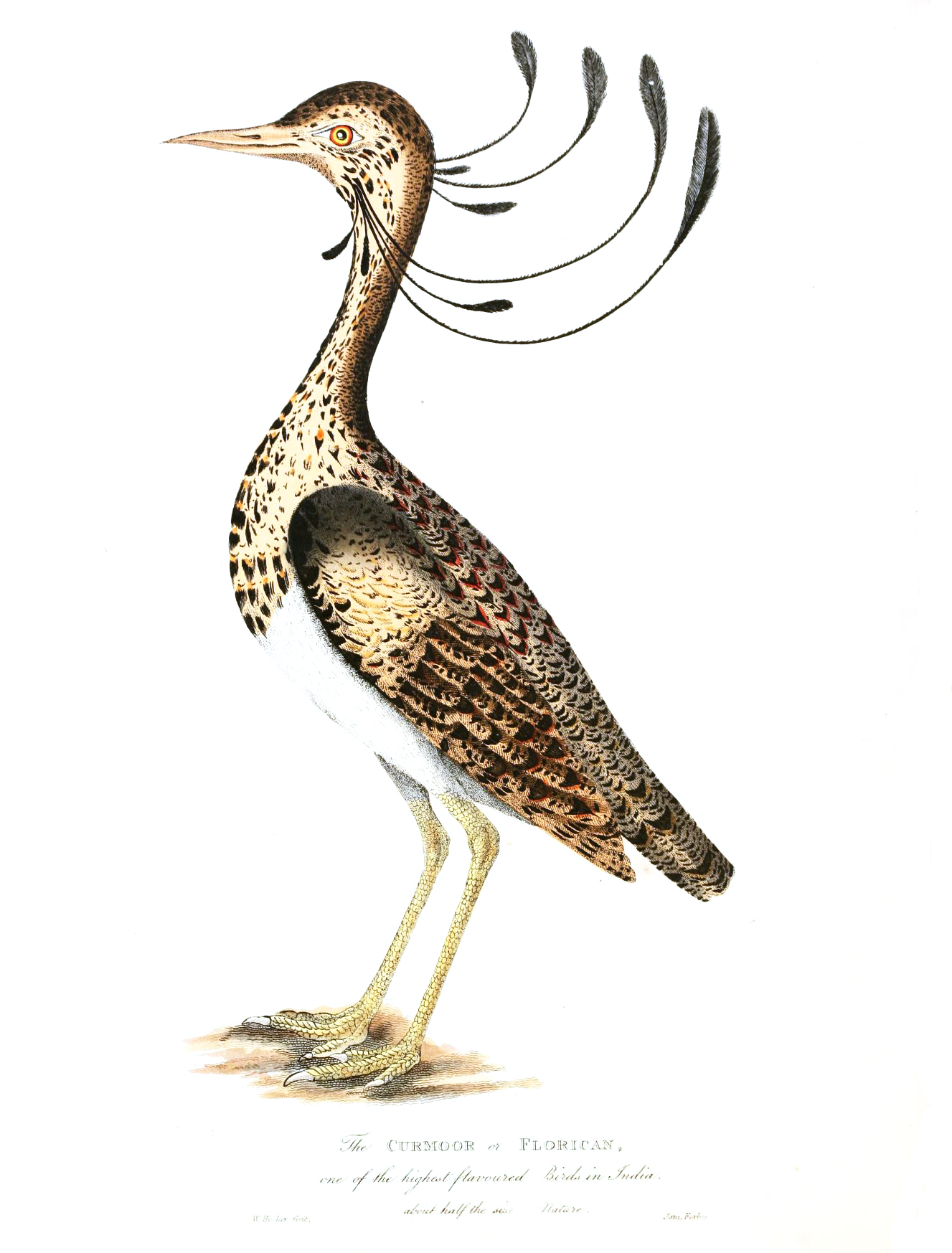 Copper engraving, with hand colour, entitled The CURMOOR or FLORICAN one of the highest flavoured Birds in India (the Lesser Florican Sypheotides indicus) Date: 1813 Description: Plate fifty-two from the second volume of James Forbes' "Oriental Memoirs". During Forbes'(1749-1819)residence in Brauch as Collector, he often went out on sporting excursions with the English Chief in the neighbouring districts. However he wrote: 'not that I had any pleasure in those diversions' but that his tent was pitched in 'unfrequented forests and savage tracts, little known to Europeans'. Since a sporting camp was formed during the first year of his residence at Bharuch, Forbes had an opportunity to explore the rich wildlife of Turcaseer, a ruined town but 'once populous and cultivated'. Here, the 'woods and forests abounded with tigers, hyenas, wolves, ...and a variety of small game' including the floriken, a much hunted bird of the Bustard family. 'The Florican, or Curmoor, exceeds...